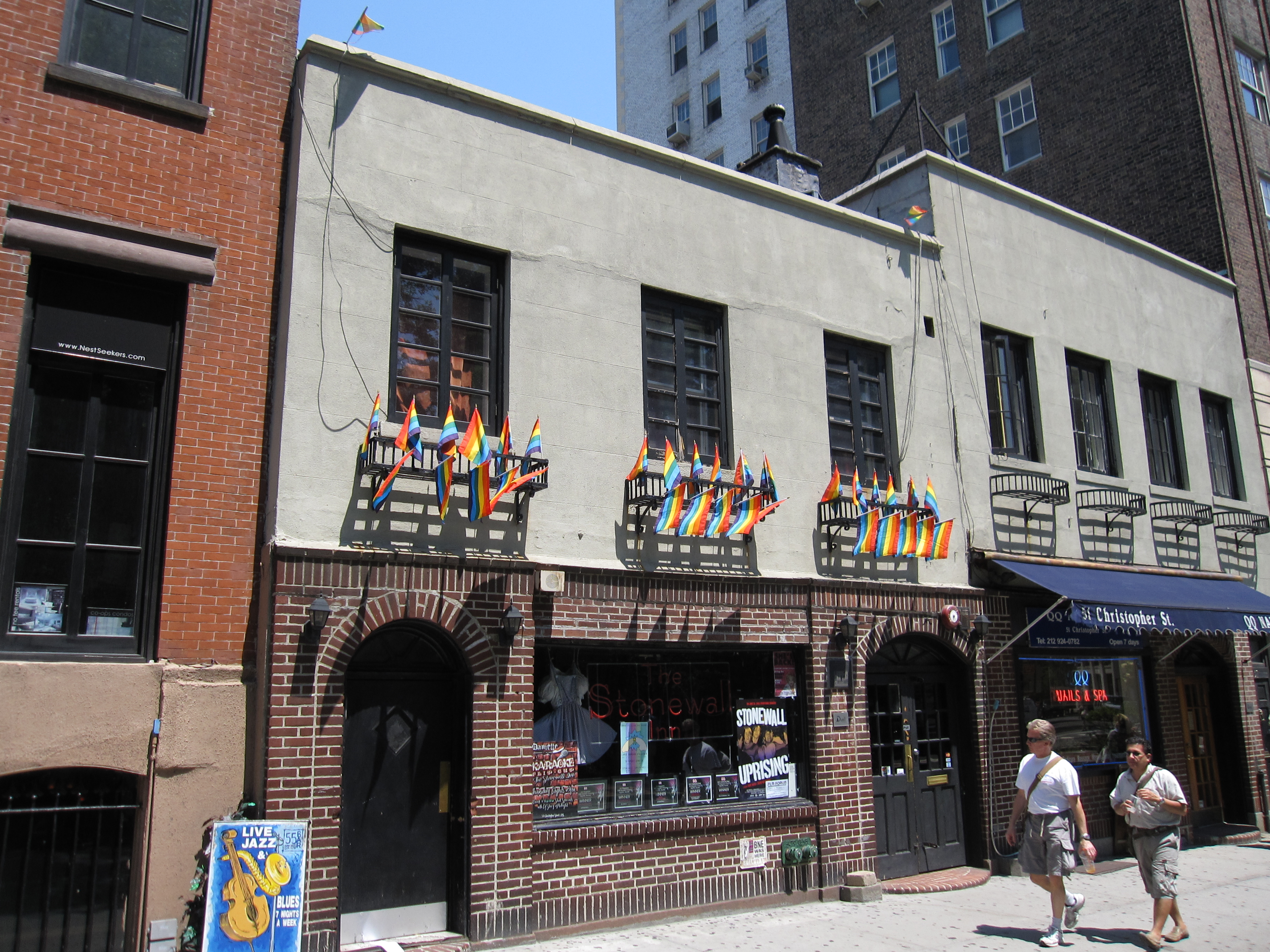 Stonewall Inn (New York)